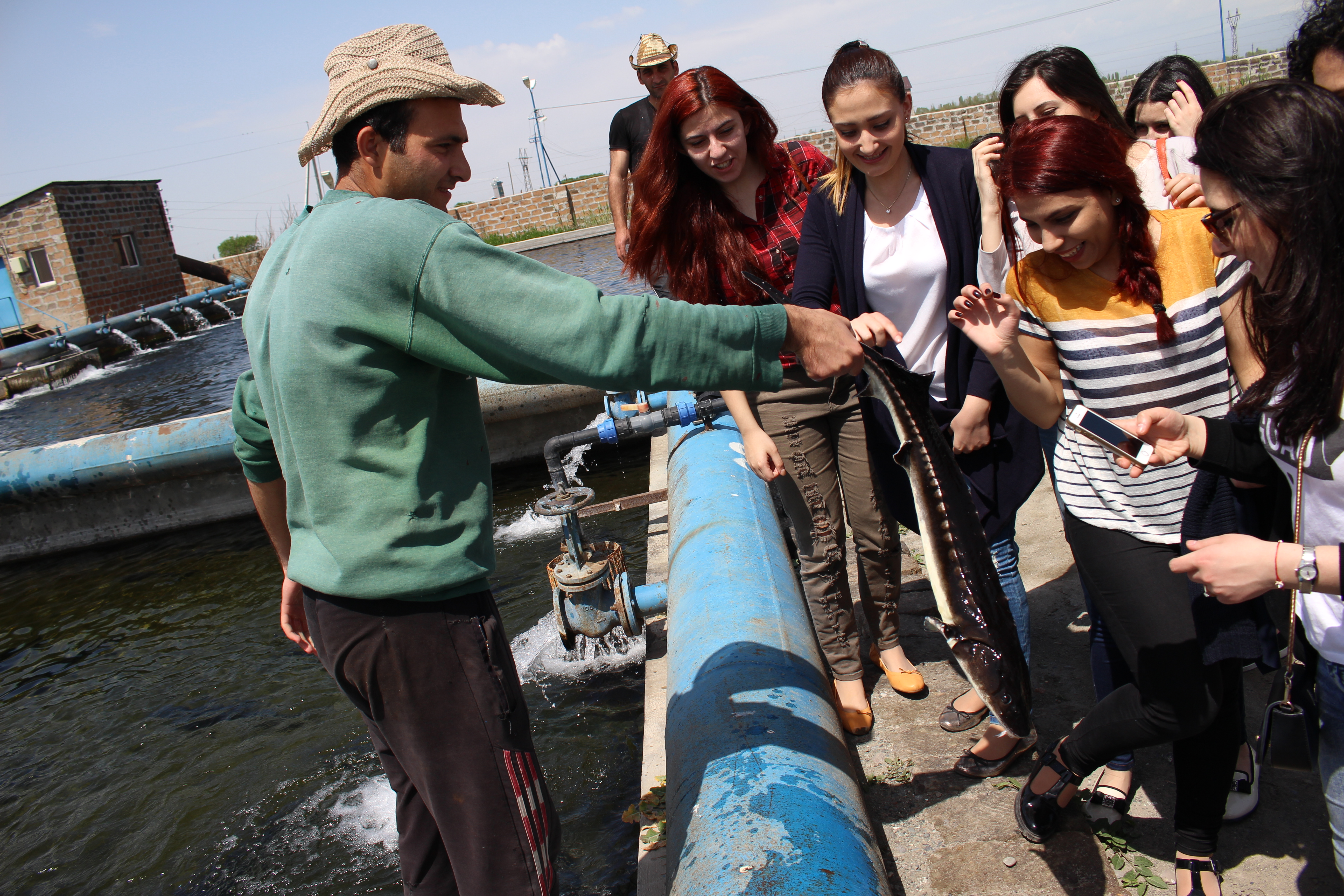 A field trip to a fish farm in Masis, Armenia.